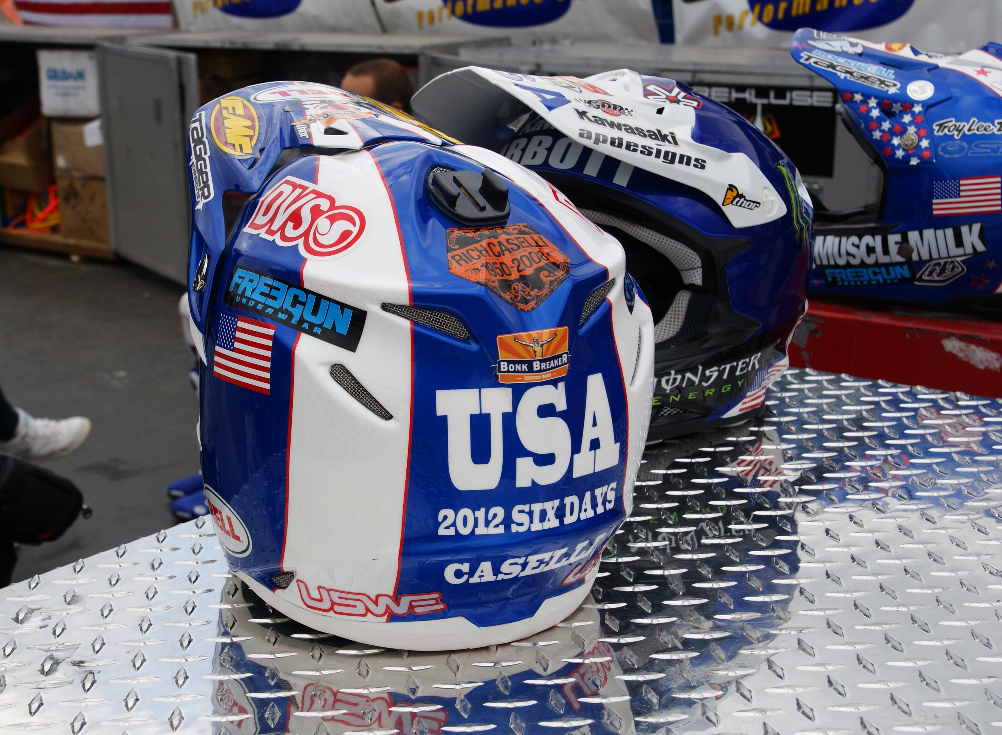 The making of this document was supported by the Community-Budget of Wikimedia Germany. 87. ISDE Germany Red Bull SIX DAYS Helmet Kurt Caselli